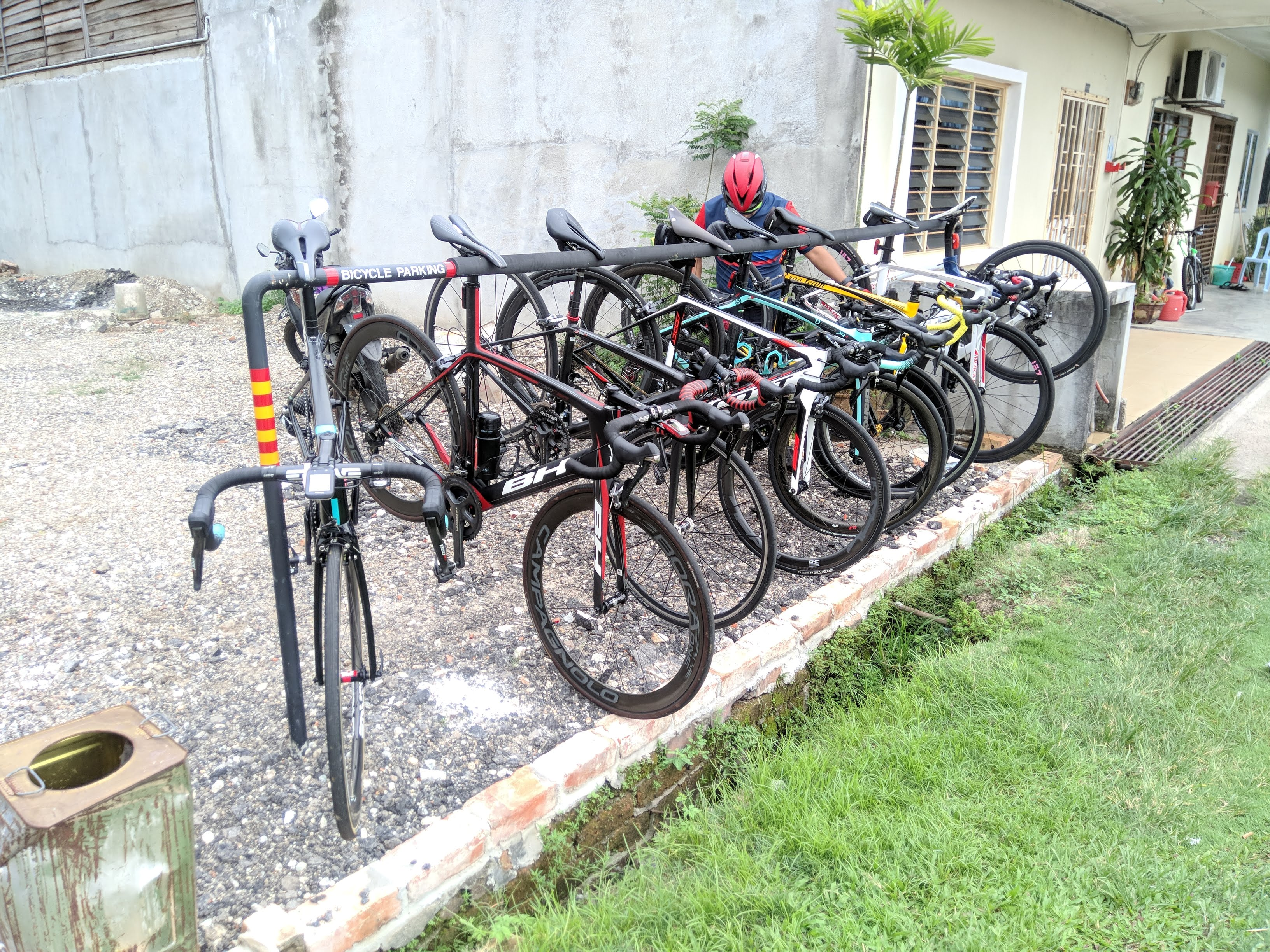 A bicycle parking in one of the restaurant in Batu Arang.